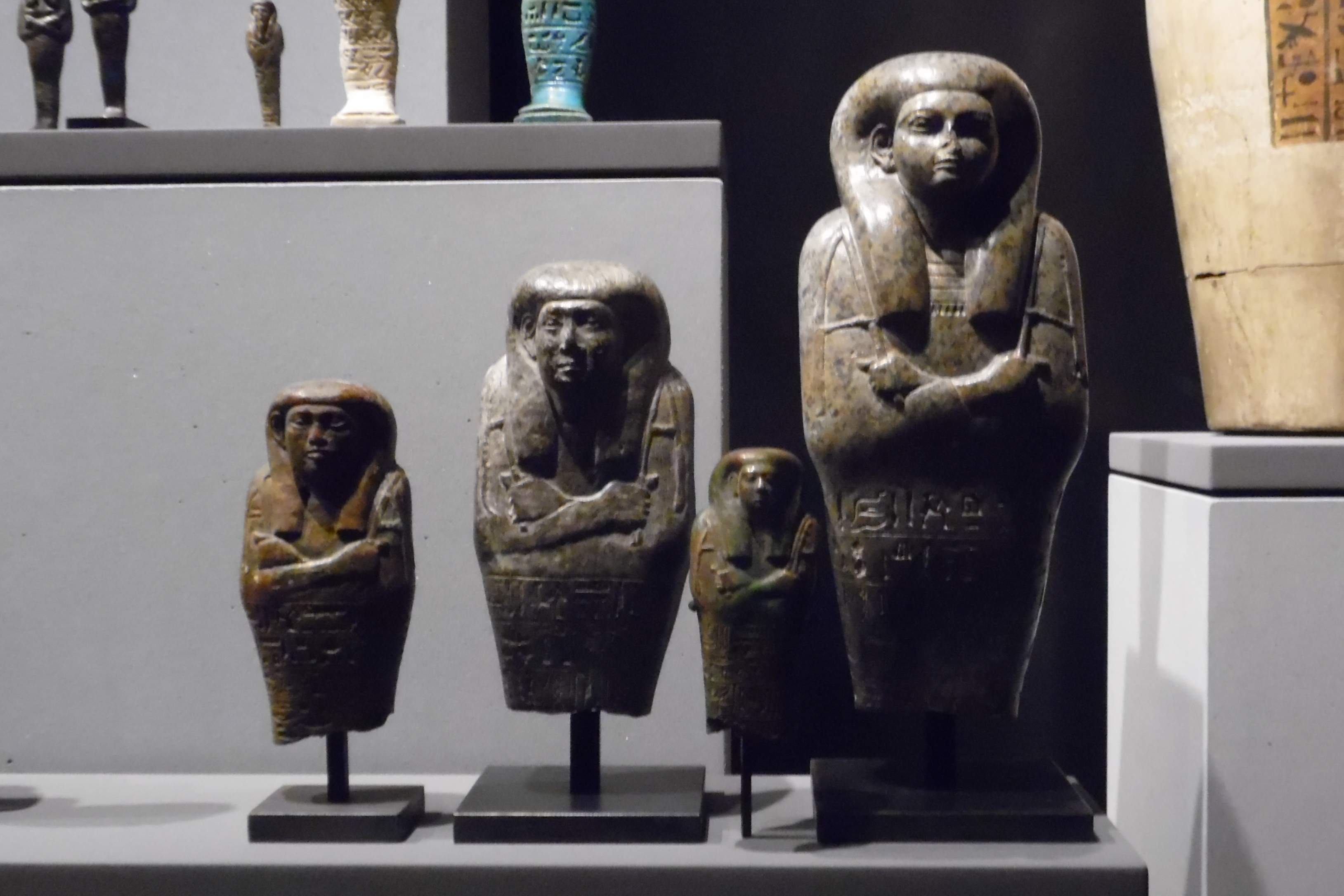 Four ushabti of the ancient Egyptian priest and high dignitary Pediamenopet (or Petamenophis) Serpentine stone from his West-Theban tomb TT33, early 26th Dynasty (c.650 BCE), Late Period. Munich, Staatliches Museum Ägyptischer Kunst, ÄS 269, 281, 389, 390.